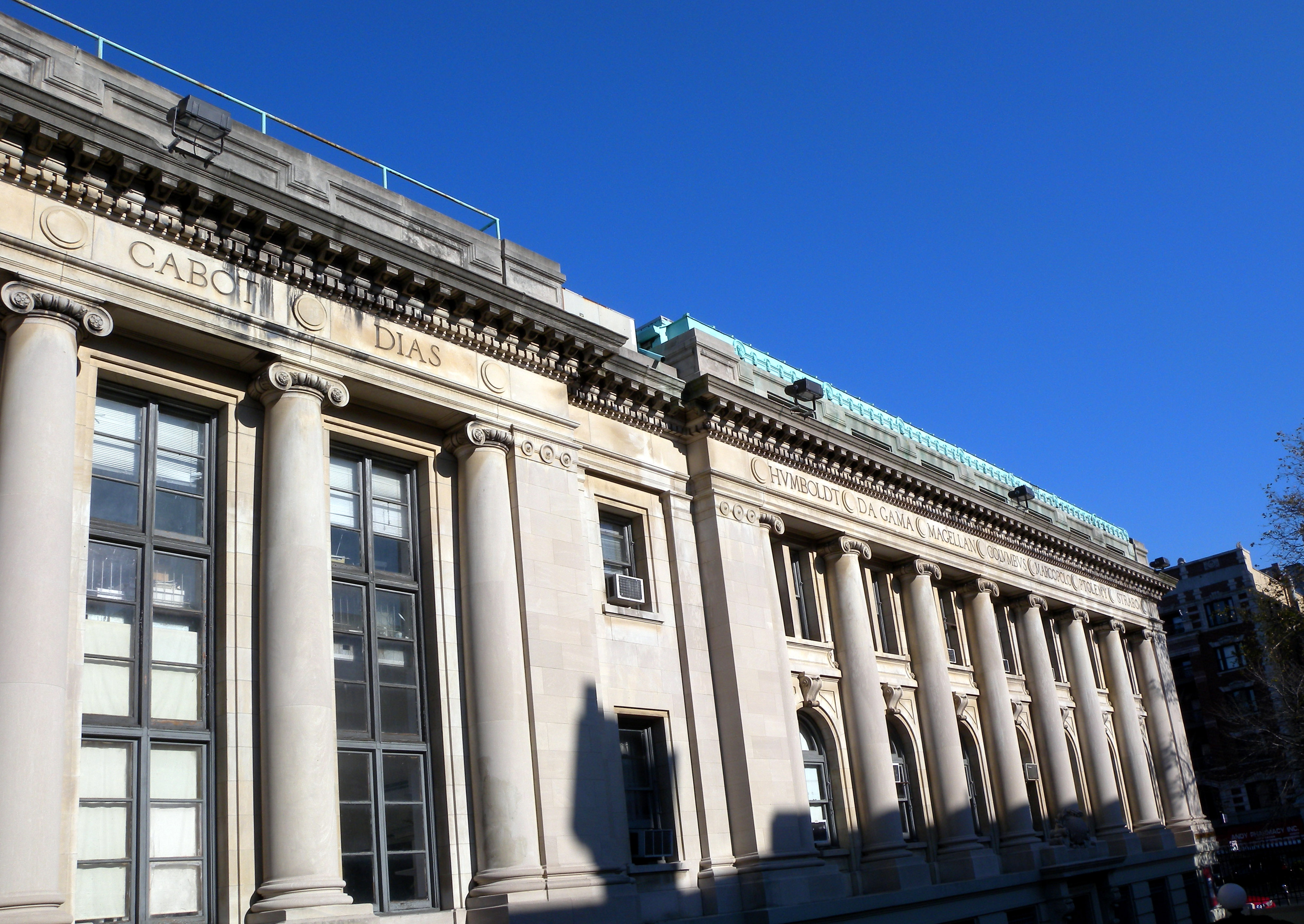 Looking east at former building of American Geographical Society with inscriptions of names of its heroes on a sunny day.